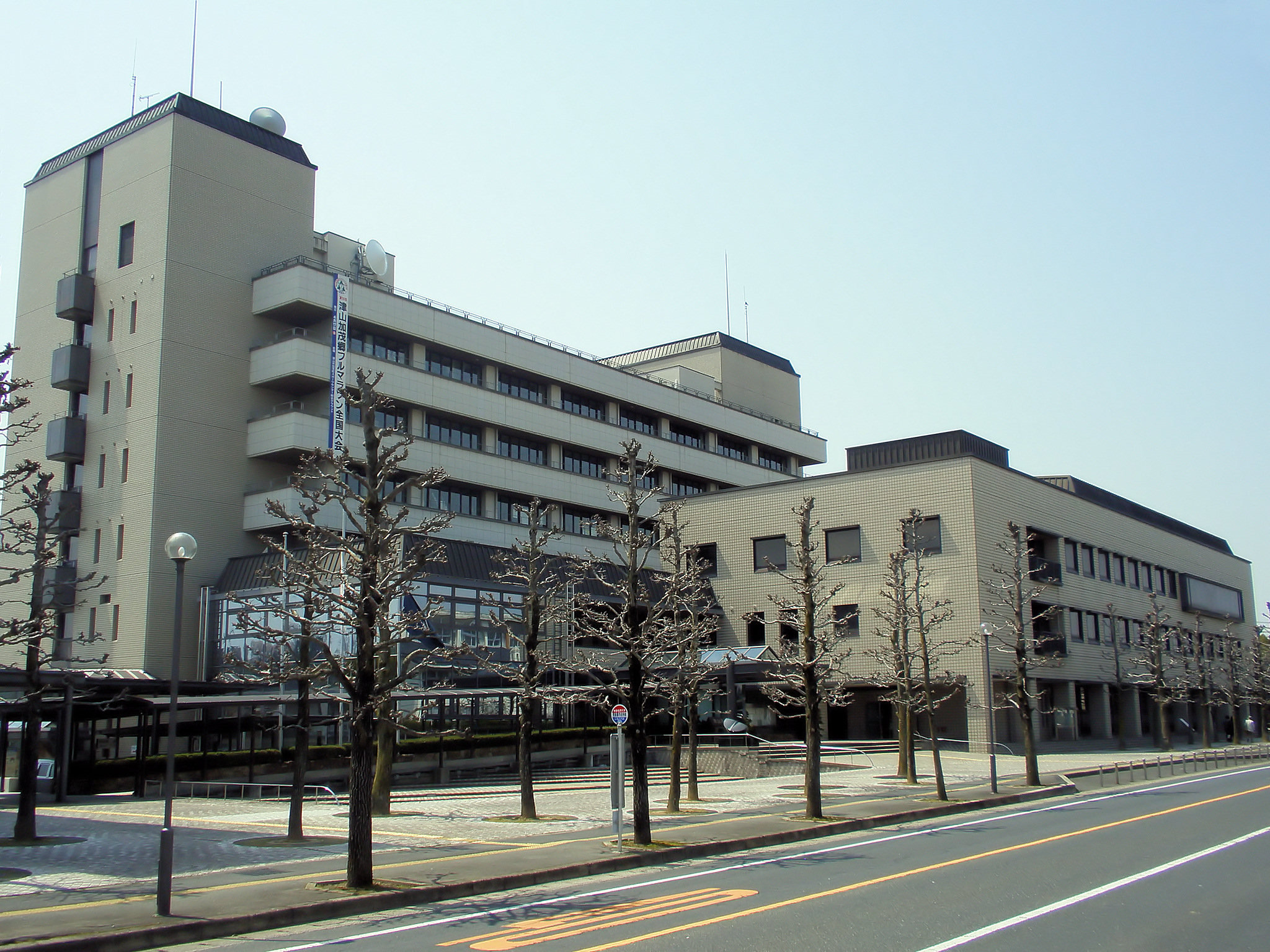 Tsuyama city office (Since July, 1982)